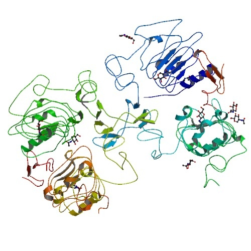 PBB_Protein_EGF